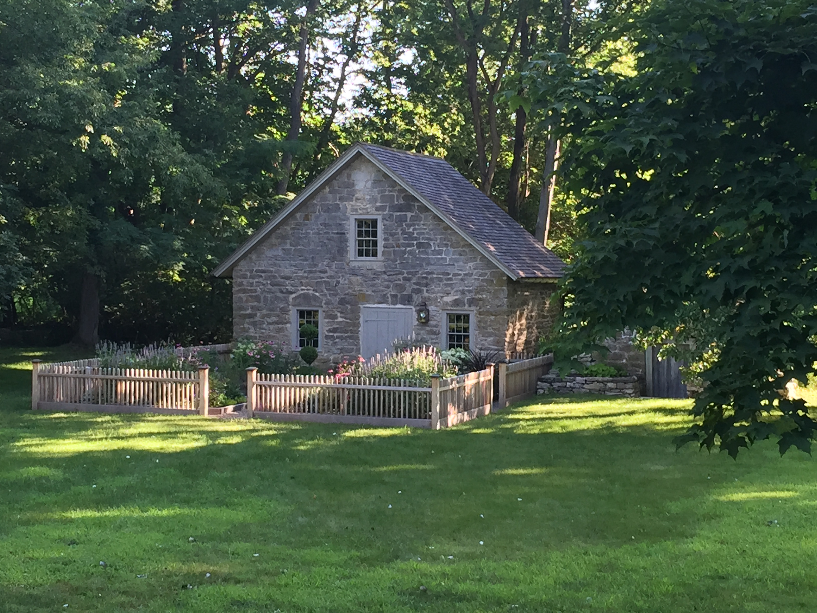 Outbuilding, used as a summer kitchen for the 1786 William Henry Ludlow house in Claverack, NY